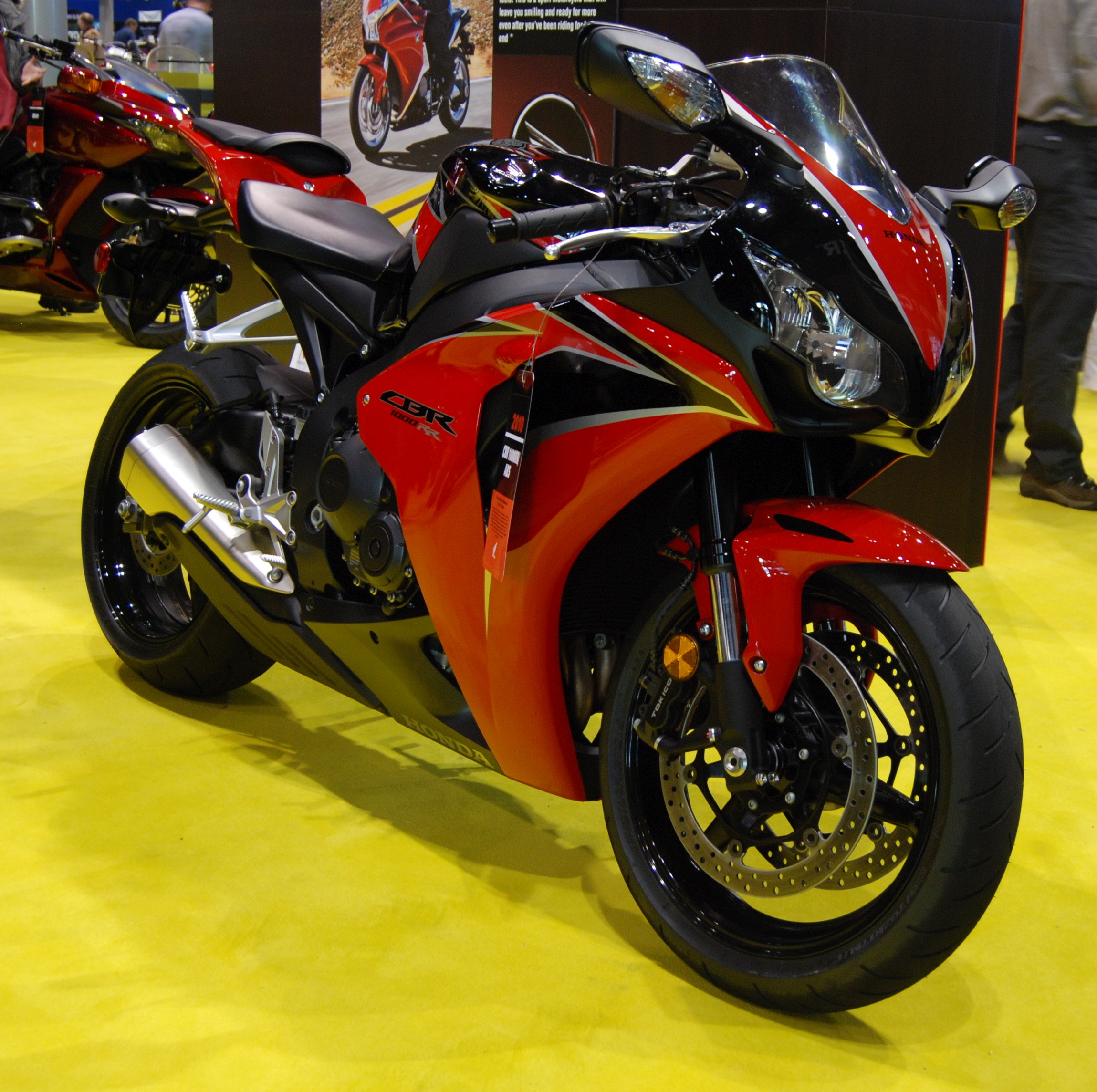 2010 Honda CBR1000RR at the 2009 Seattle International Motorcycle Show